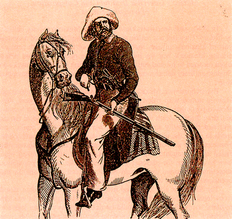 Cartoon of Texas Ranger